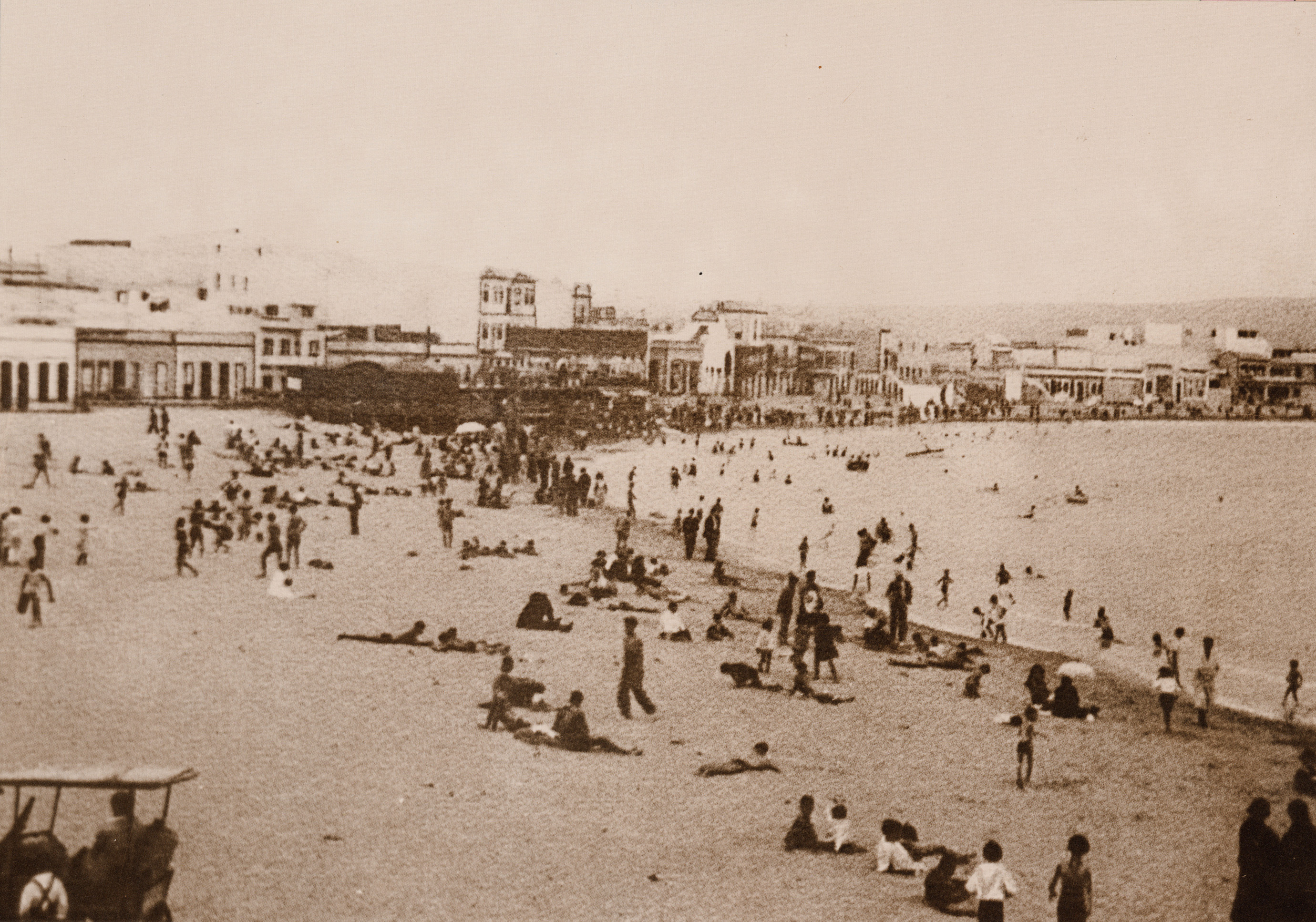 A day in the beach. Las Canteras Beach, Las Palmas de Gran Canaria (Gran Canaria). Canary Islands, Spain.